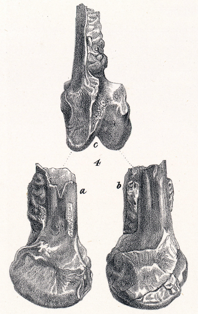 Fig. 4. Three views of the distal trochlear joint of one of the long bones, probably the metacarpal of the wing-finger, of a large Pterodactyle ?